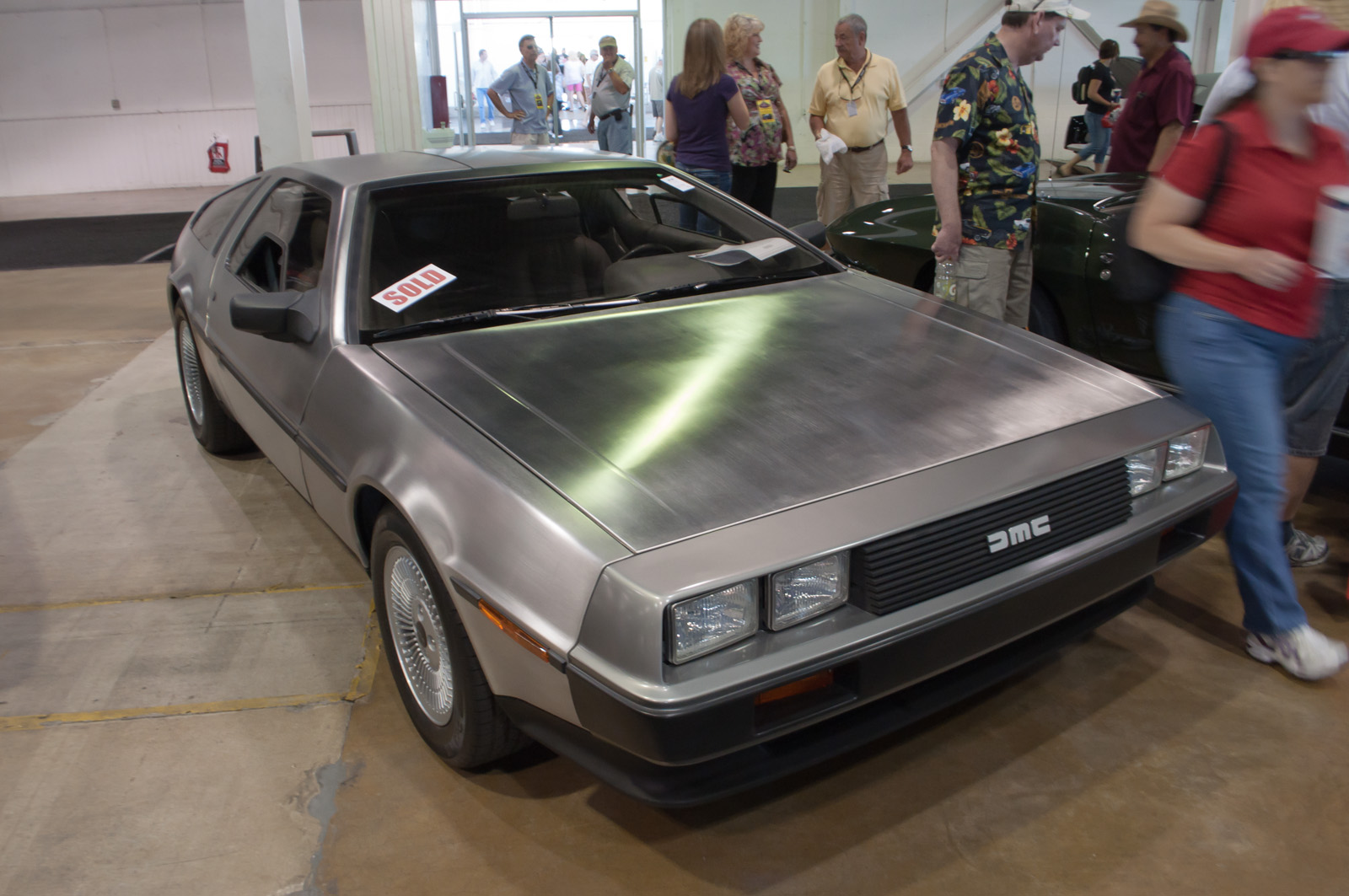 Offered for sale at Barrett-Jackson Auto Auction, Costa Mesa, California. This car was made famous by the Back to the Future series of movies back in the day. It was completely restored in 2004 at around 16,600 miles on the odometer, and has rarely been driven since.